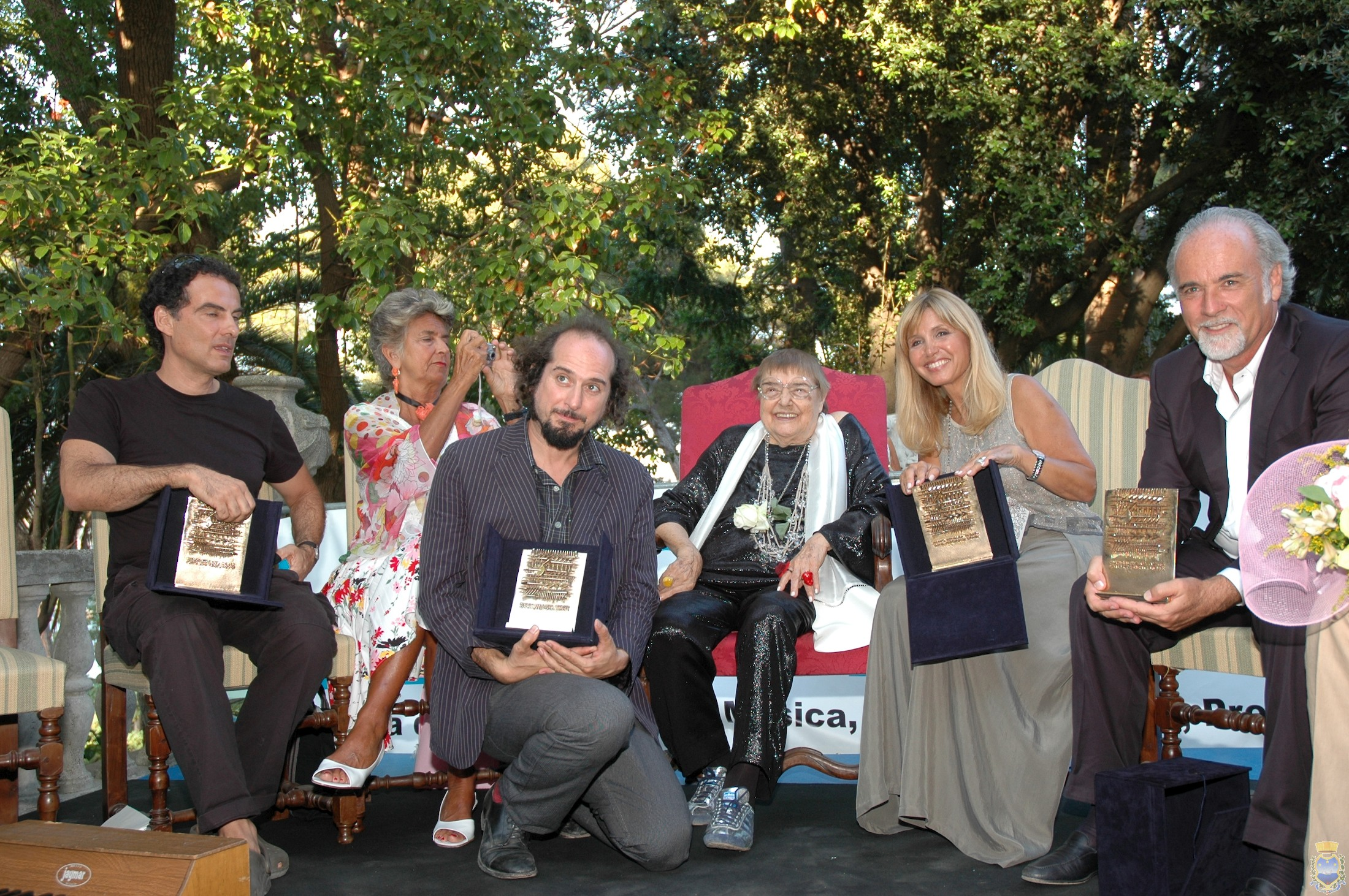 Andrea De Carlo, Fiorella Minervino, Vinicio Capossela, Fernanda Pivano, Dori Ghezzi, Antonio Ricci